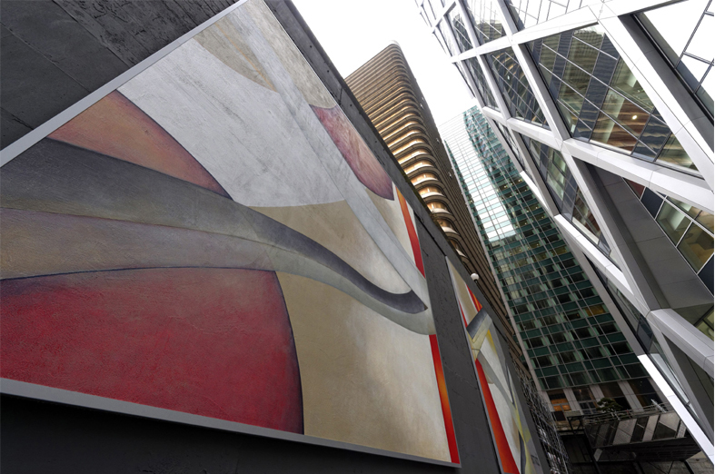 A 216 square meters at the foot of the D2 Tower in the district of "La Défense".